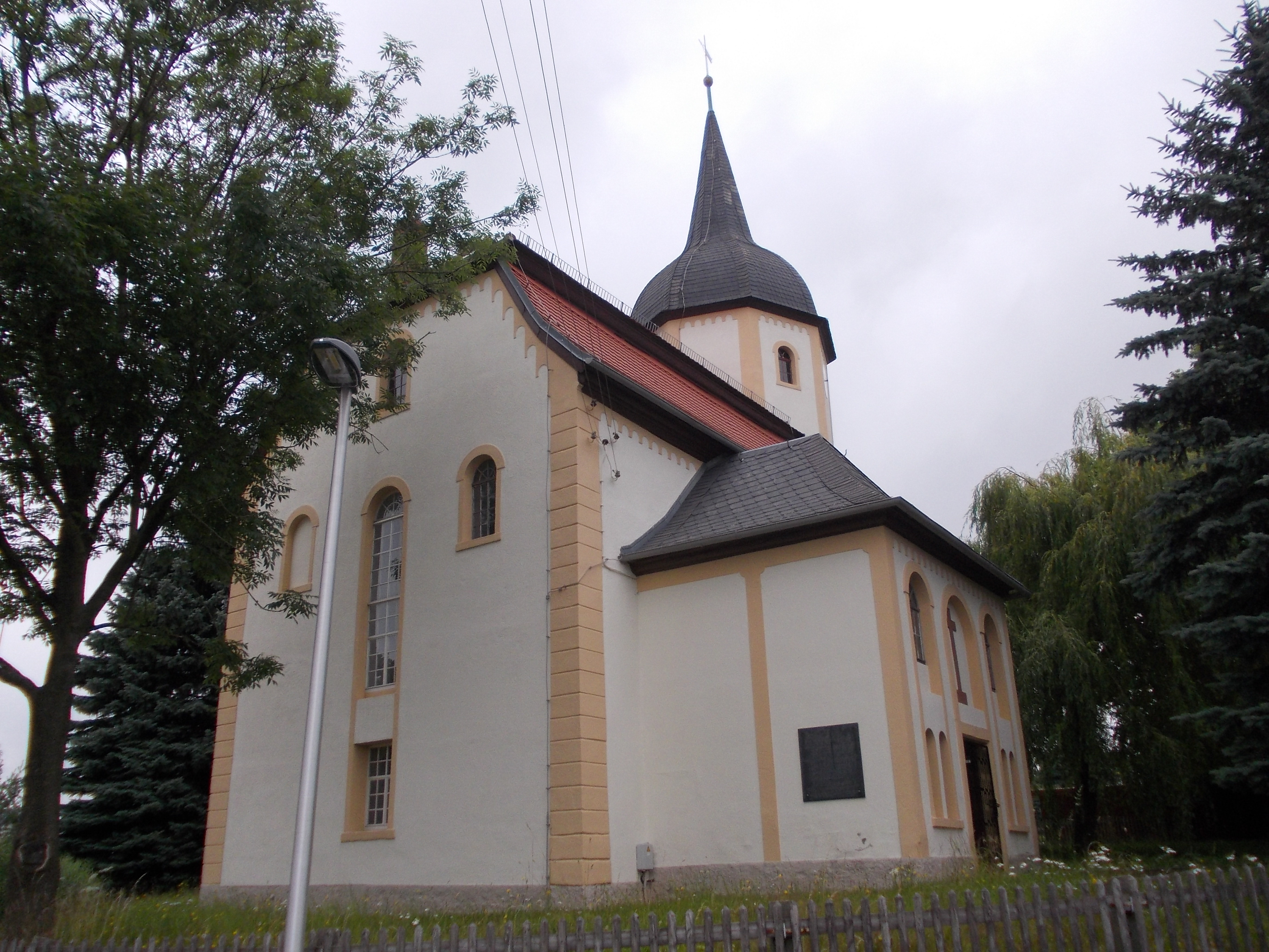 Mannichswalde church (Crimmitschau, Zwickau district, Saxony)